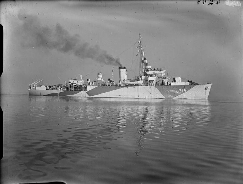 HMS Rosario Underway, coastal waters.